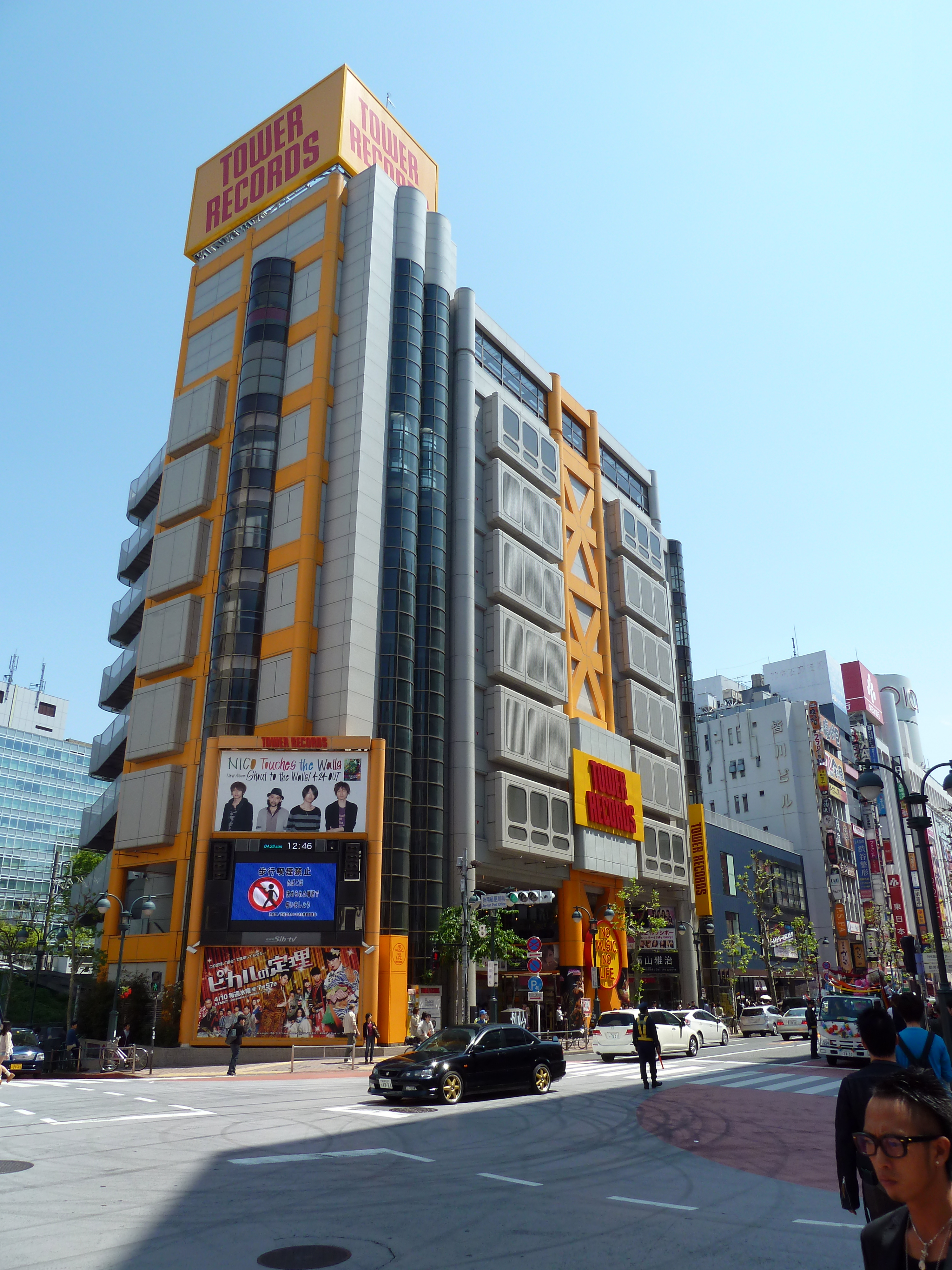 Tower Records, Shibuya